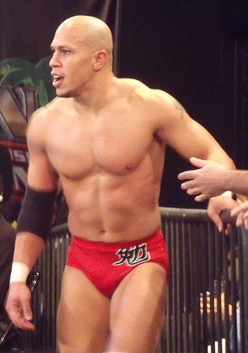 Kaval ecstatic after winning a match in FCW.